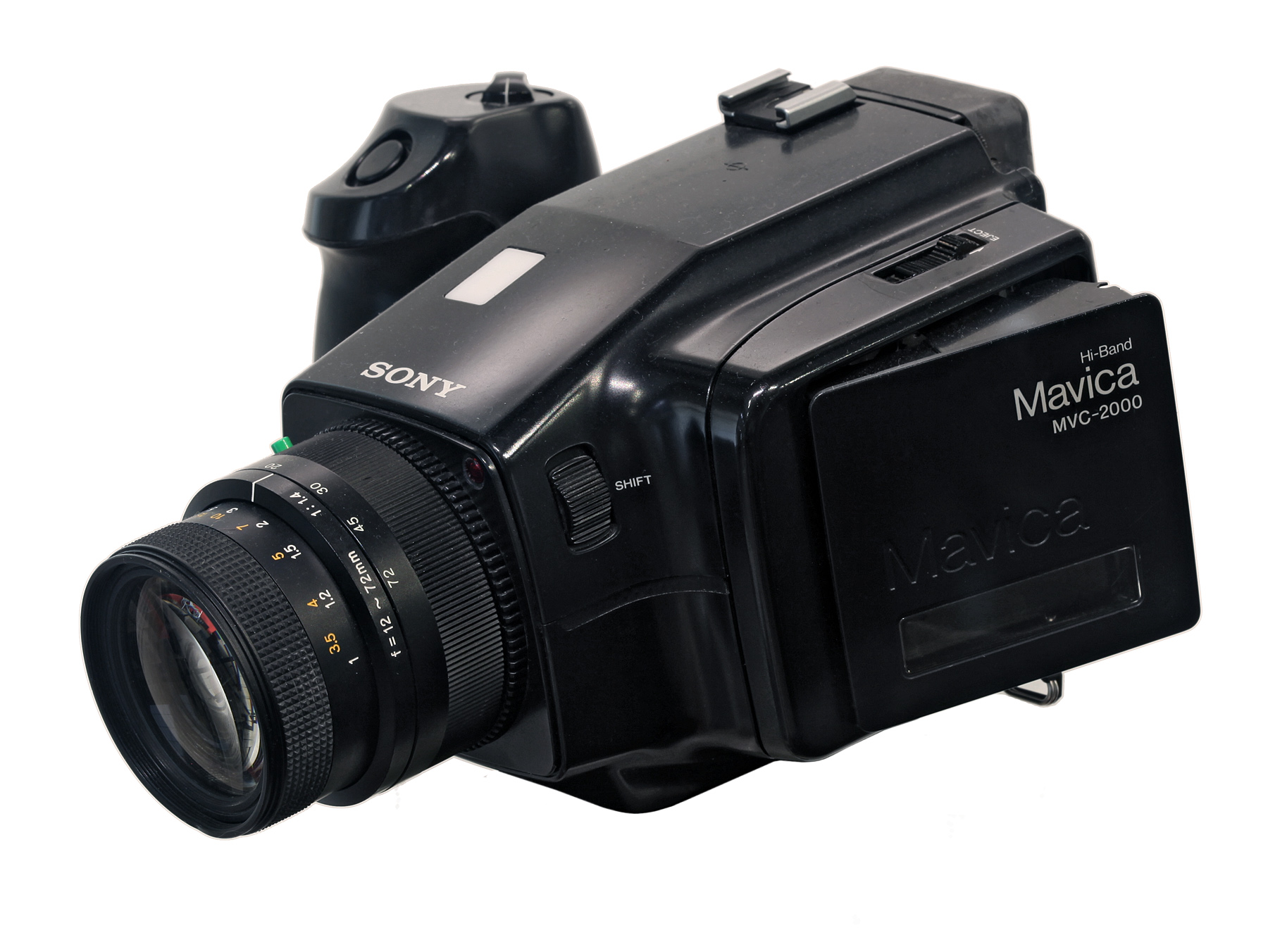 Sony Mavica MVC-2000 camera